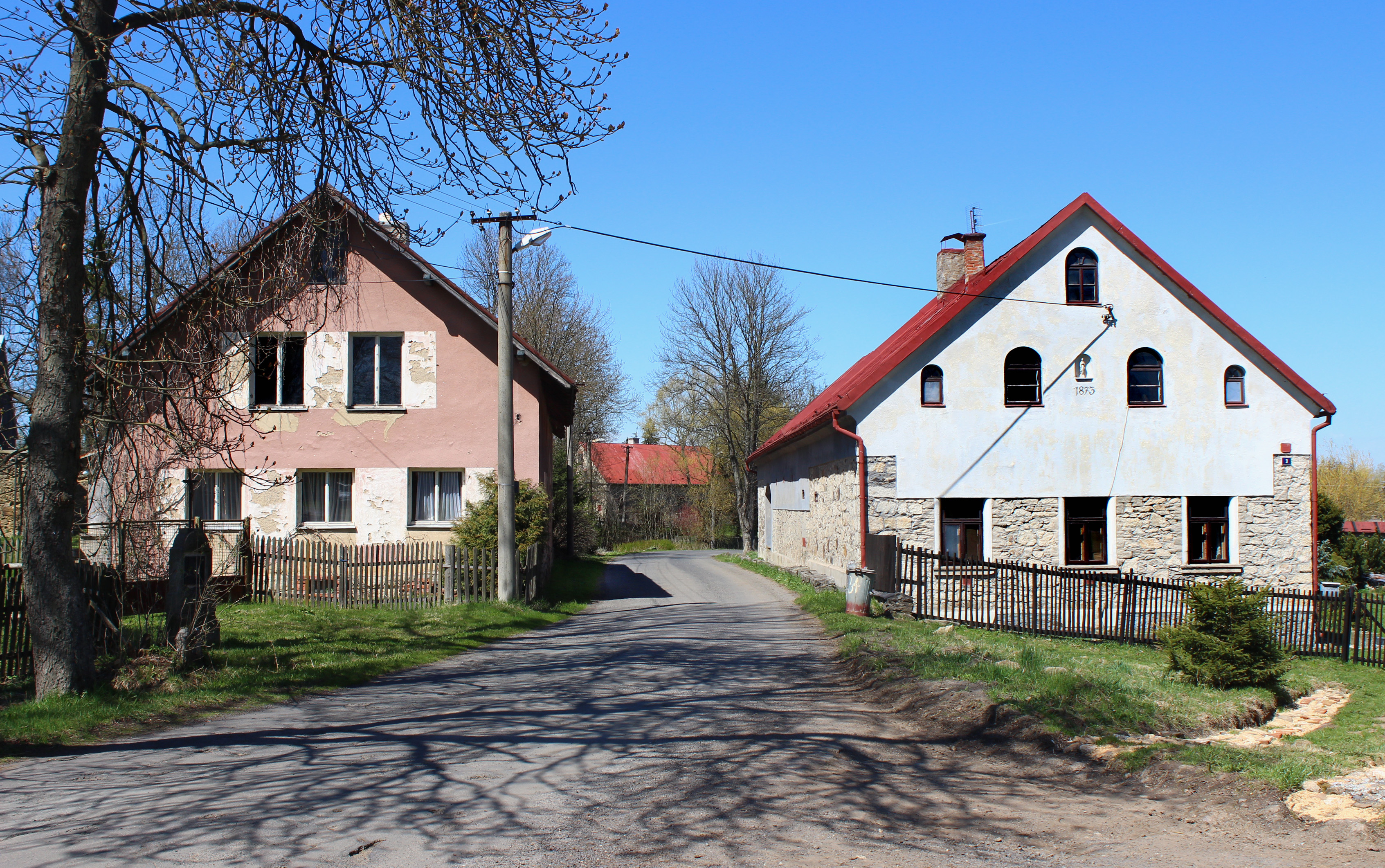 Křepkovice, part of Teplá, Czech Republic